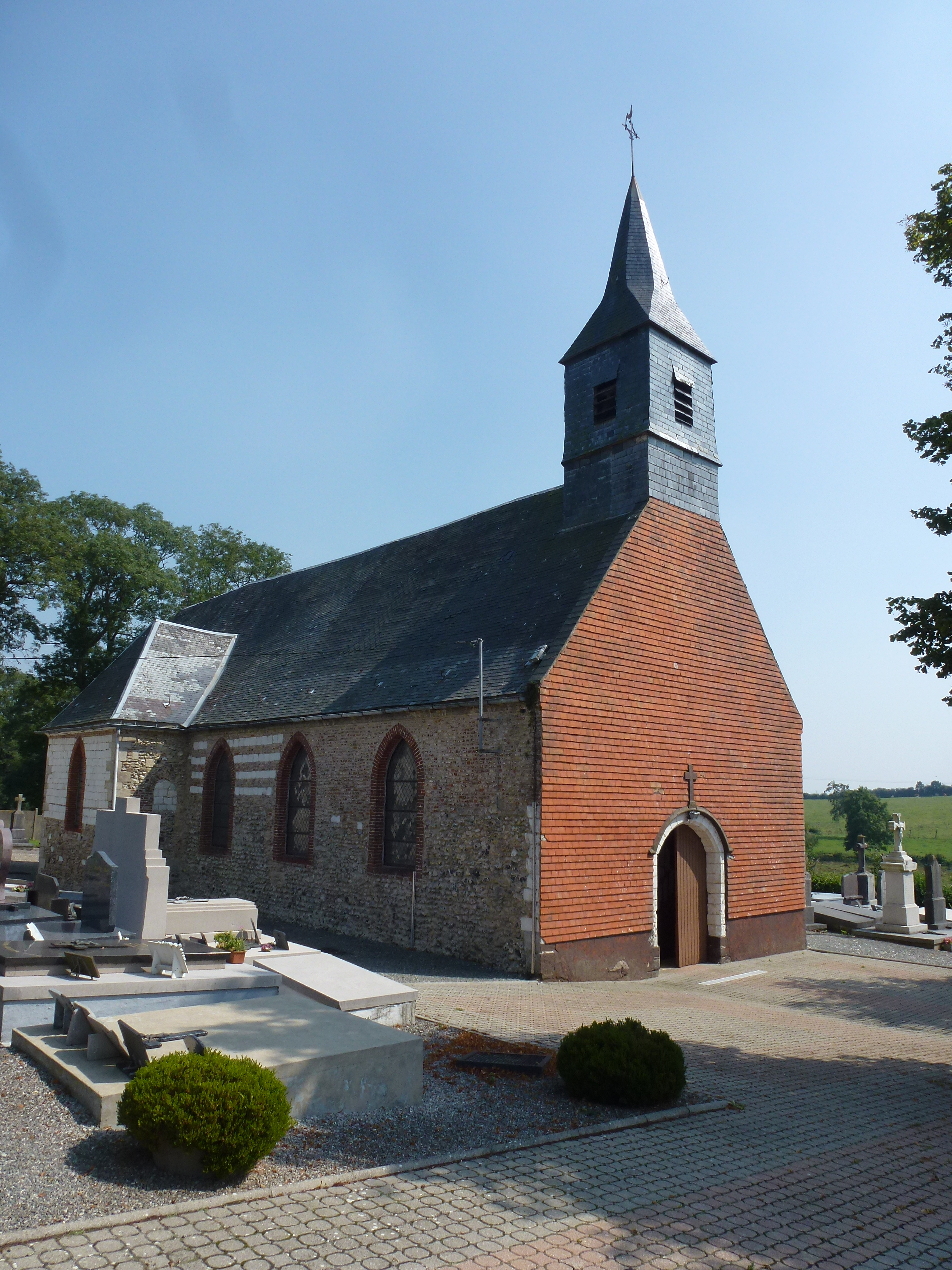 Alembon (Pas-de-Calais) église Saint-Pierre, façade